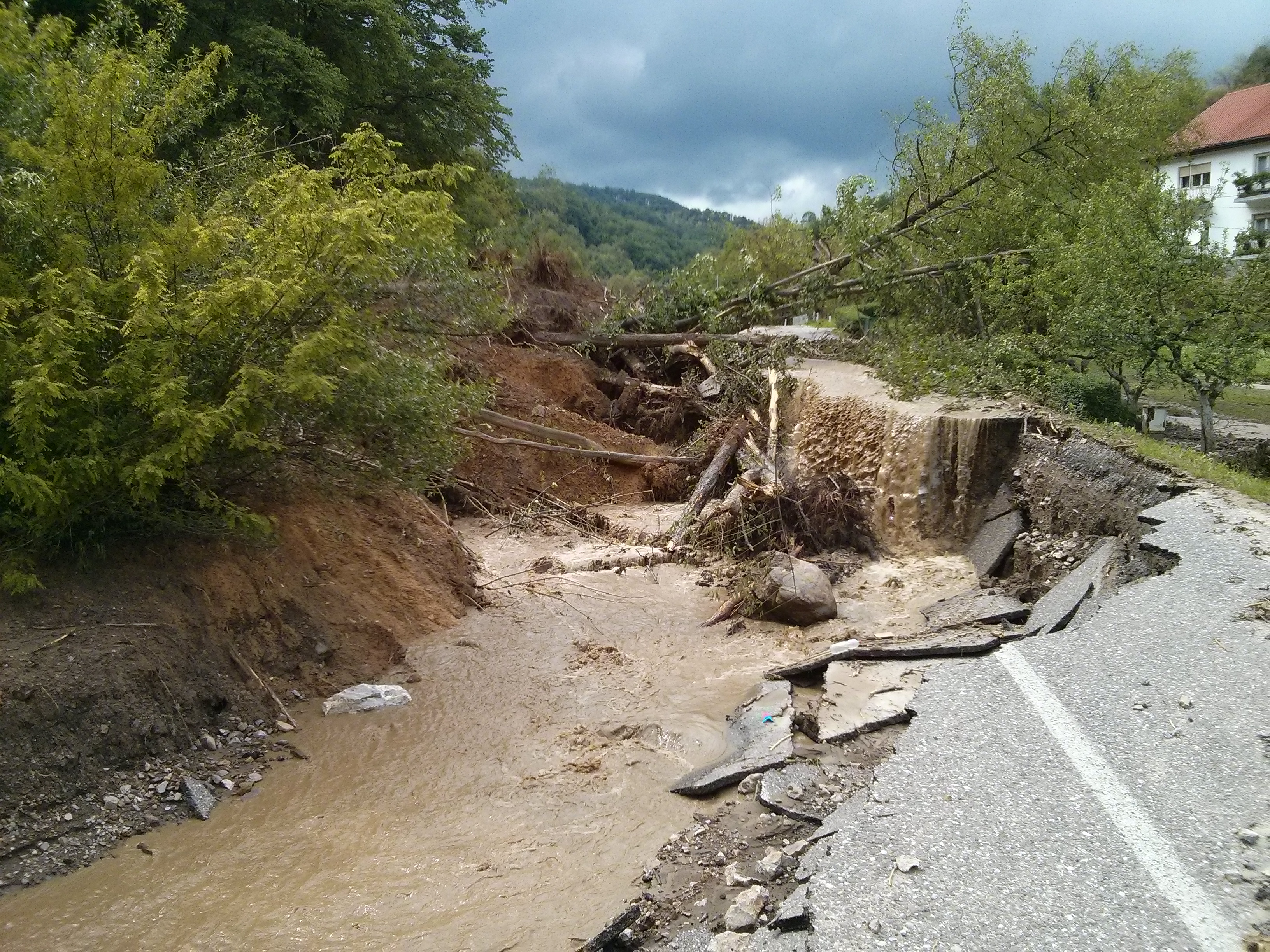 Floods in Krupanj - May 2014